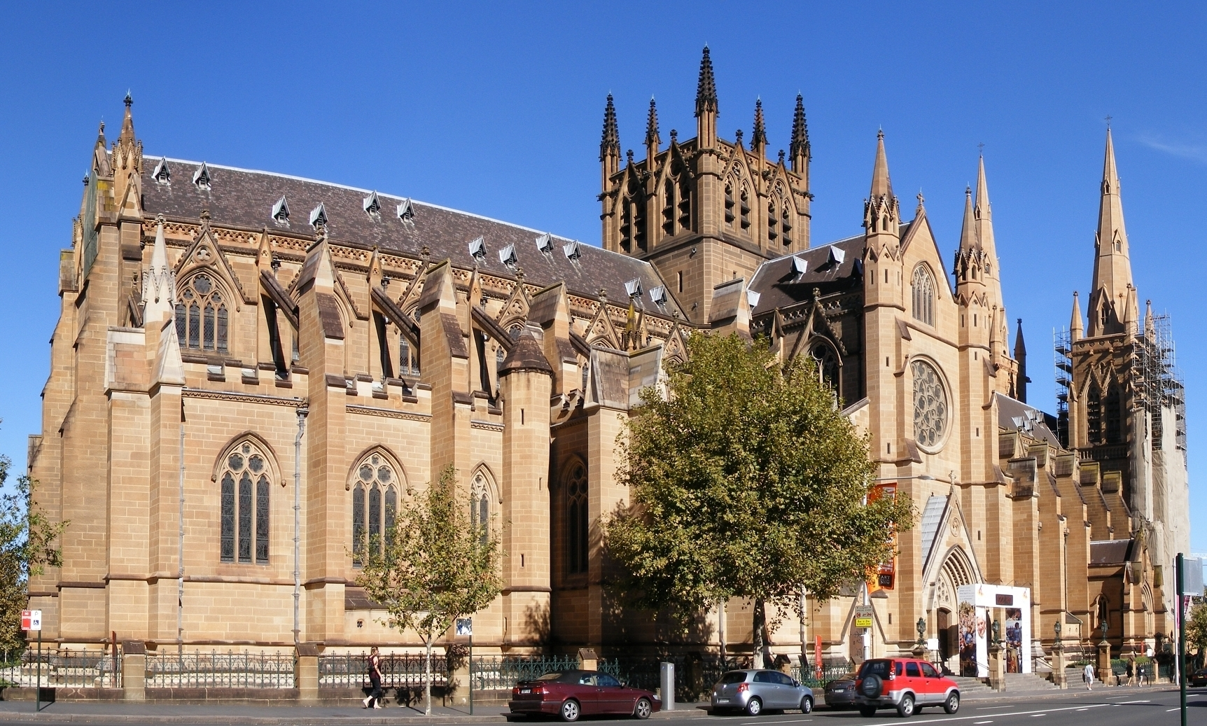 St. Mary's Roman Catholic Cathedral, Sydney. Architect- William Wardell